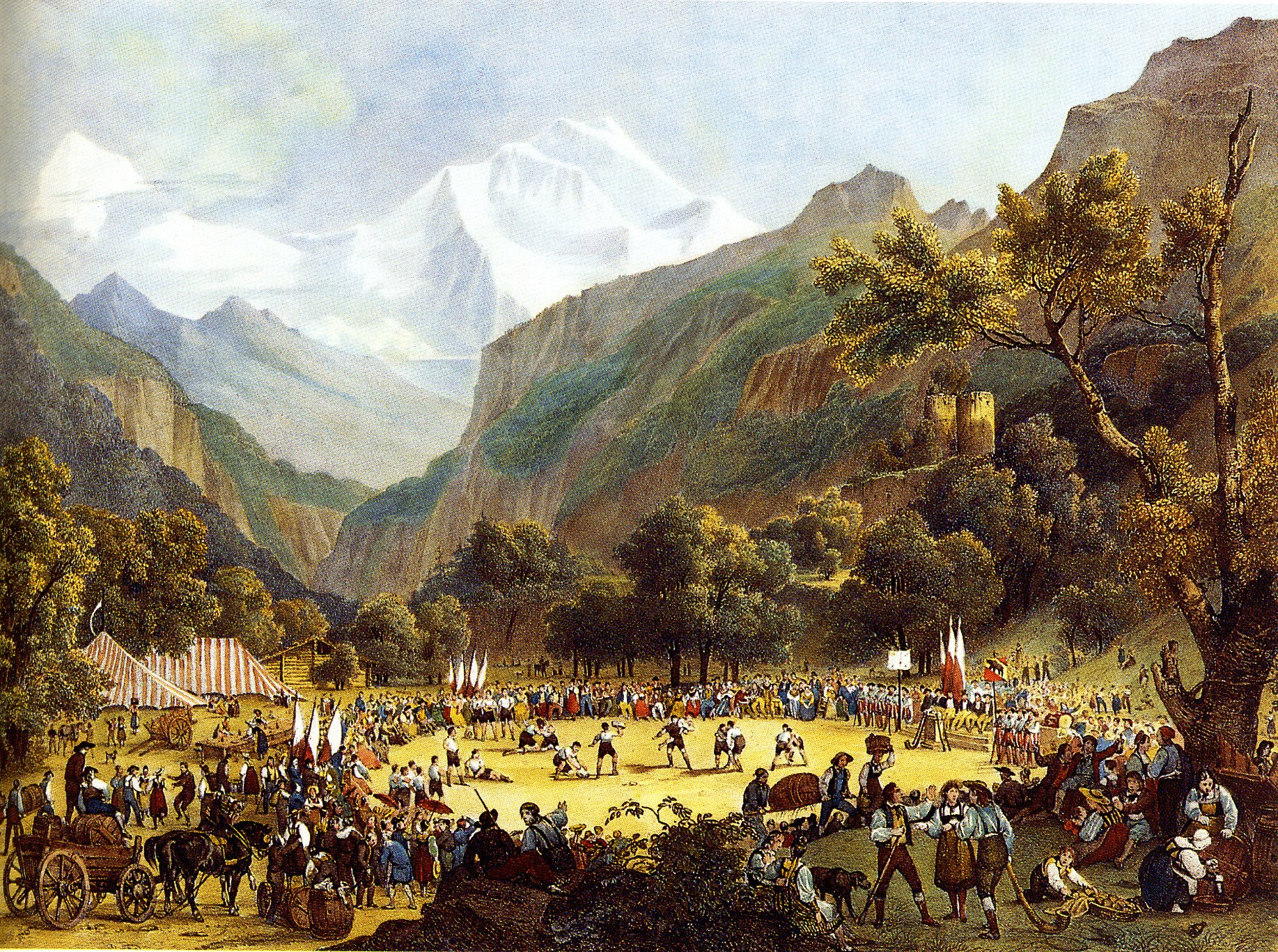 The Unspunnen fest, organized in Switzerland in 1808